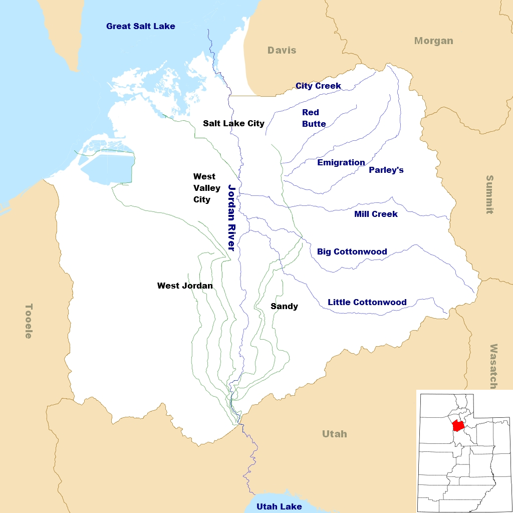 A map of the Jordan River watershed. Rivers and creeks are in blue. Canals are in gray.